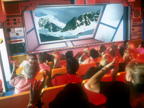 Wild Arctic Flight Simulator Motion Ride, San Diego